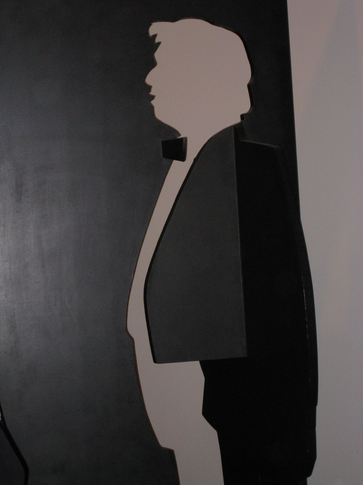 Silhouette of Toon Hermans in a theatre in Maastricht.